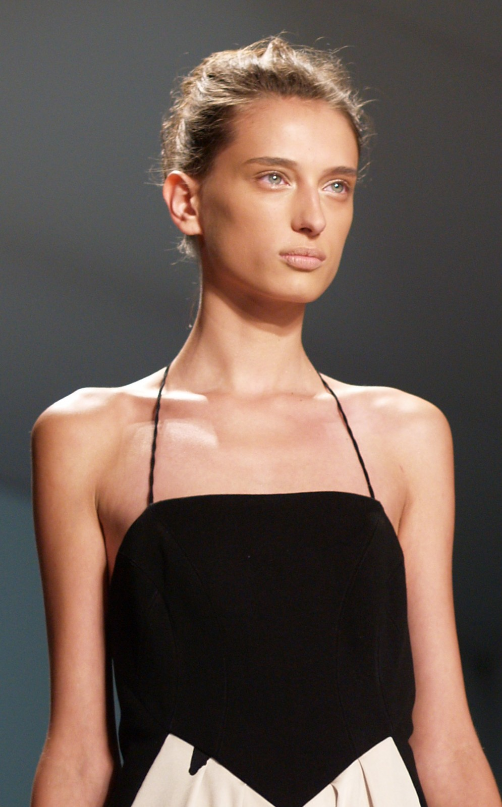 Ana Mihajlovic modeling in Doo.Ri Spring 2007 show, New York Fashion Week